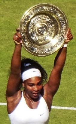 Serena Williams beat Garbiñe Muguruza 6–4, 6–4 to win her sixth Wimbledon singles trophy.